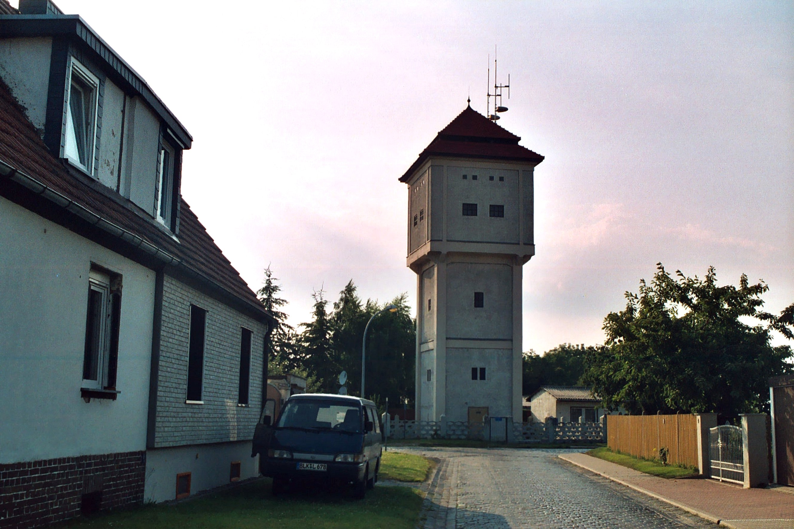 Bischofrode (Lutherstadt Eisleben), the water tower